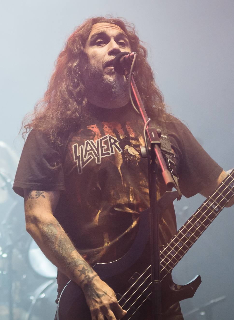 Tom Araya – a lead singer and bass player of Slayer. Ursynalia 2012 Festival, Warsaw, Poland.